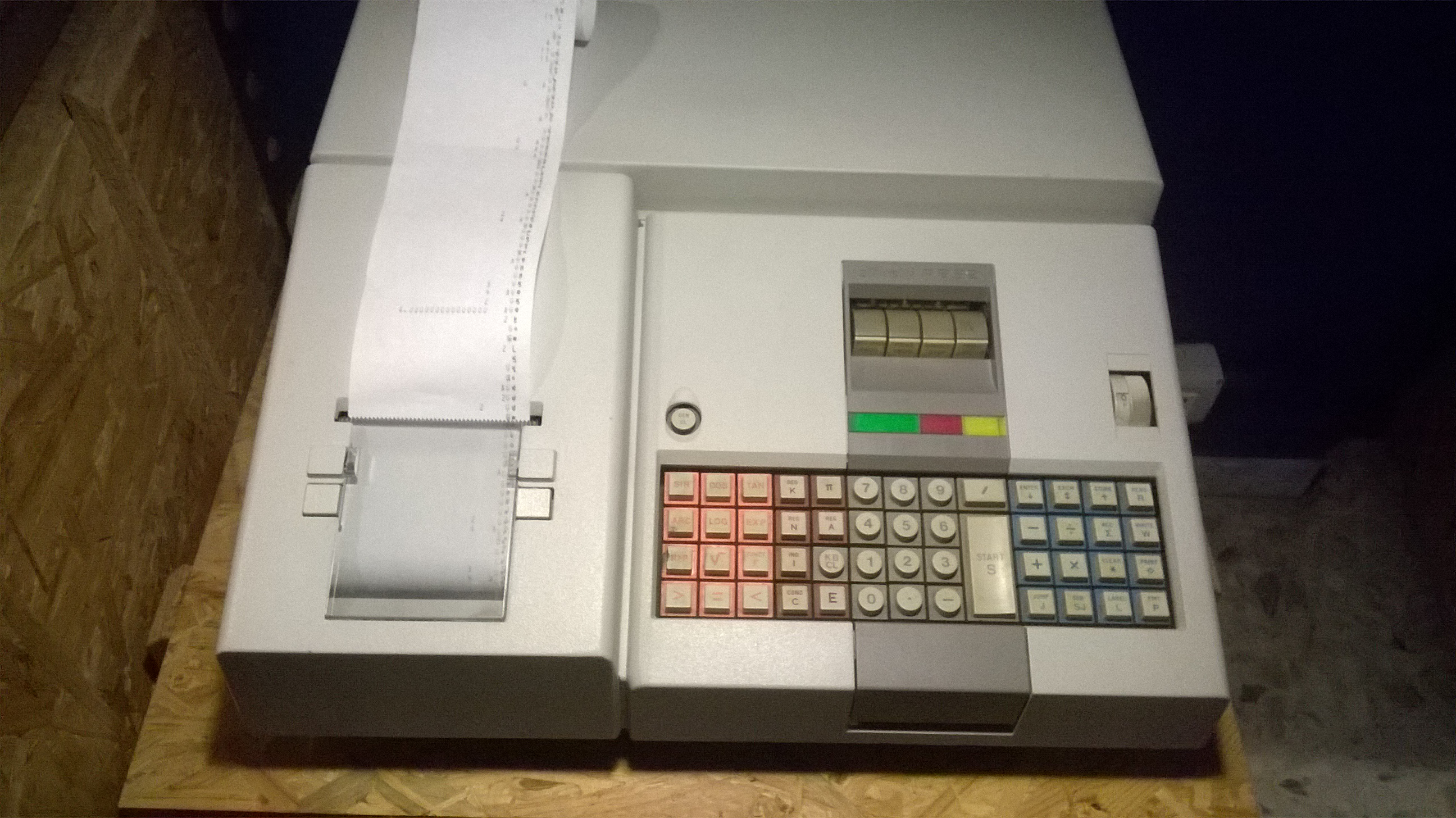 Olivetti P652 at Tecnologicamente Museum